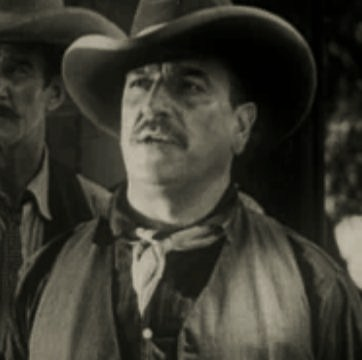 G. Raymond Nye in Hard Hombre (1931) - cropped screenshot.